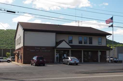 A photo of the Town of Southport, Town Hall